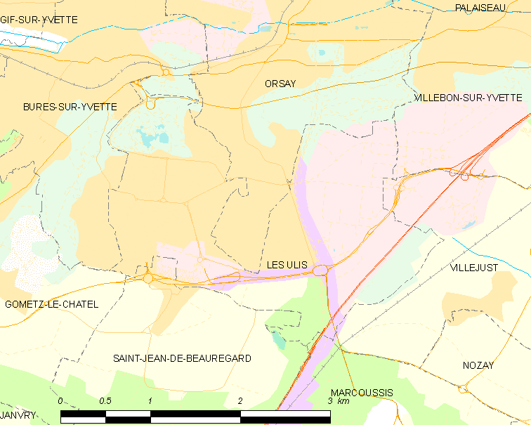 Map of French municipality Les Ulis